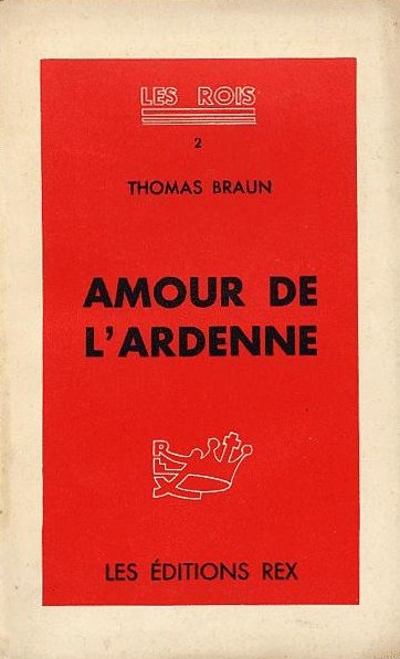 Cover of L'Amour de l'Ardenne (1933) by Thomas Braun, published by Éditions Rex.